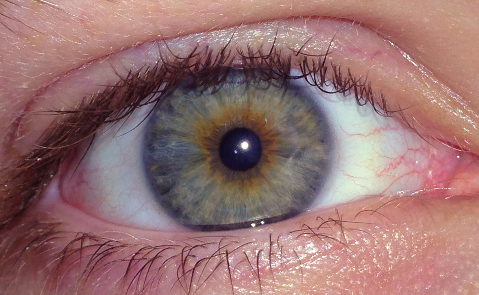 The right, light green-blue colored, eye of a 23 year old caucasian male.